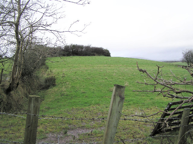 Rath at Tattycor. It is located at the top of the hill which is half way between Dromore and Fintona.